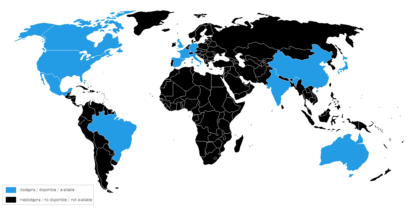 Map of the availability of Cortana in the world available not available Sources: Microsoft announces Cortana for China, UK with 'alpha' status for India, Australia, and Canada , Jul 30, 2014 Microsoft Releases Cortana In 4 New Countries TechCrunch, Dec 5, 2014 (Germany, Italy, France, Spain) Cortana brings Cultural Savviness to New Markets By Marcus Ash / Group Program Manager, Cortana July 20, 2015 ("Today we’re announcing that over the coming months, Cortana will be available to customers in the Windows Insider Program in Japan and Australia, and in English in Canada and India. Later this year, Cortana will also be available to Windows Insiders in Brazil and Mexico, and in French in Canada.")